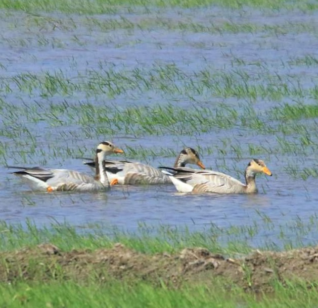 Bar-headed Goose Anser indicus, Thrissur district, Kerala, India